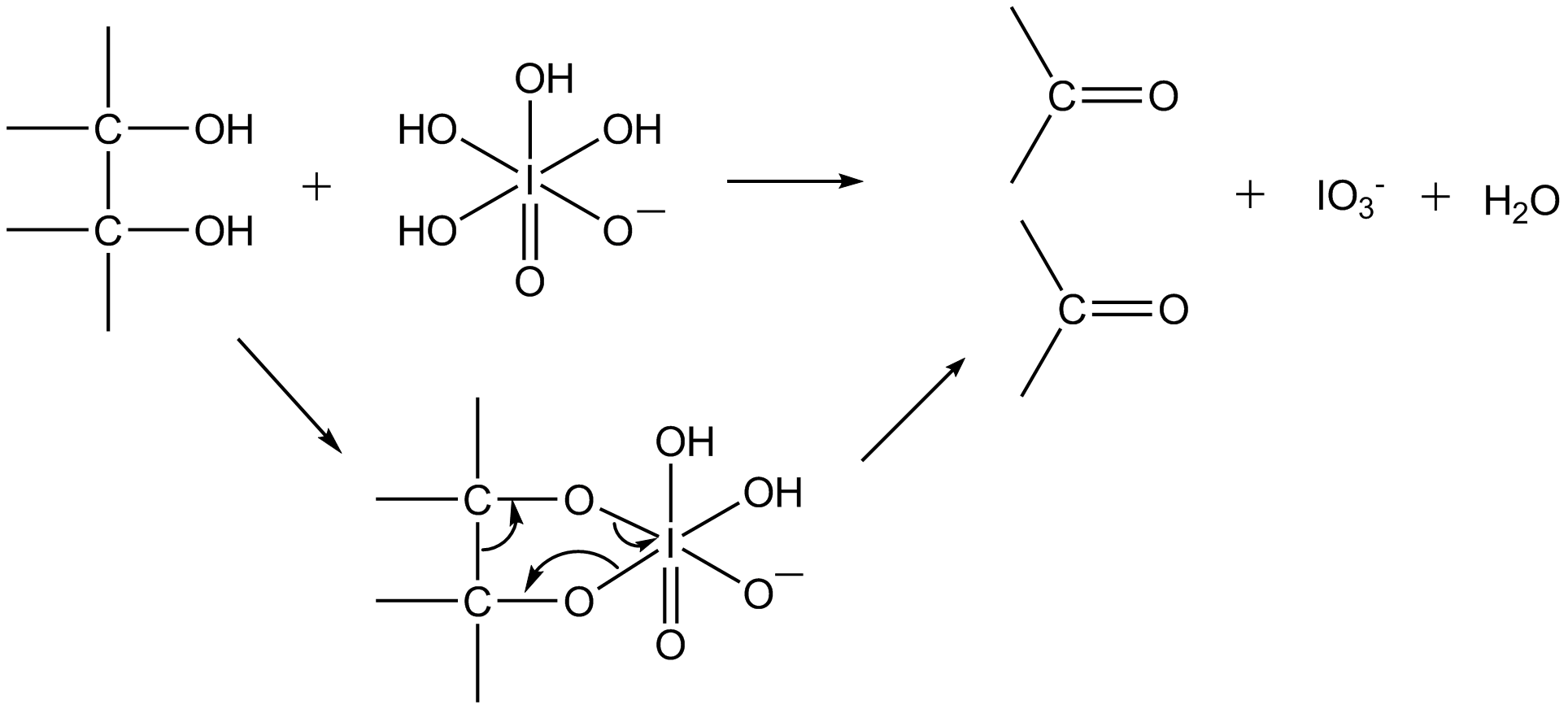 Diol oxidized by periodate ion